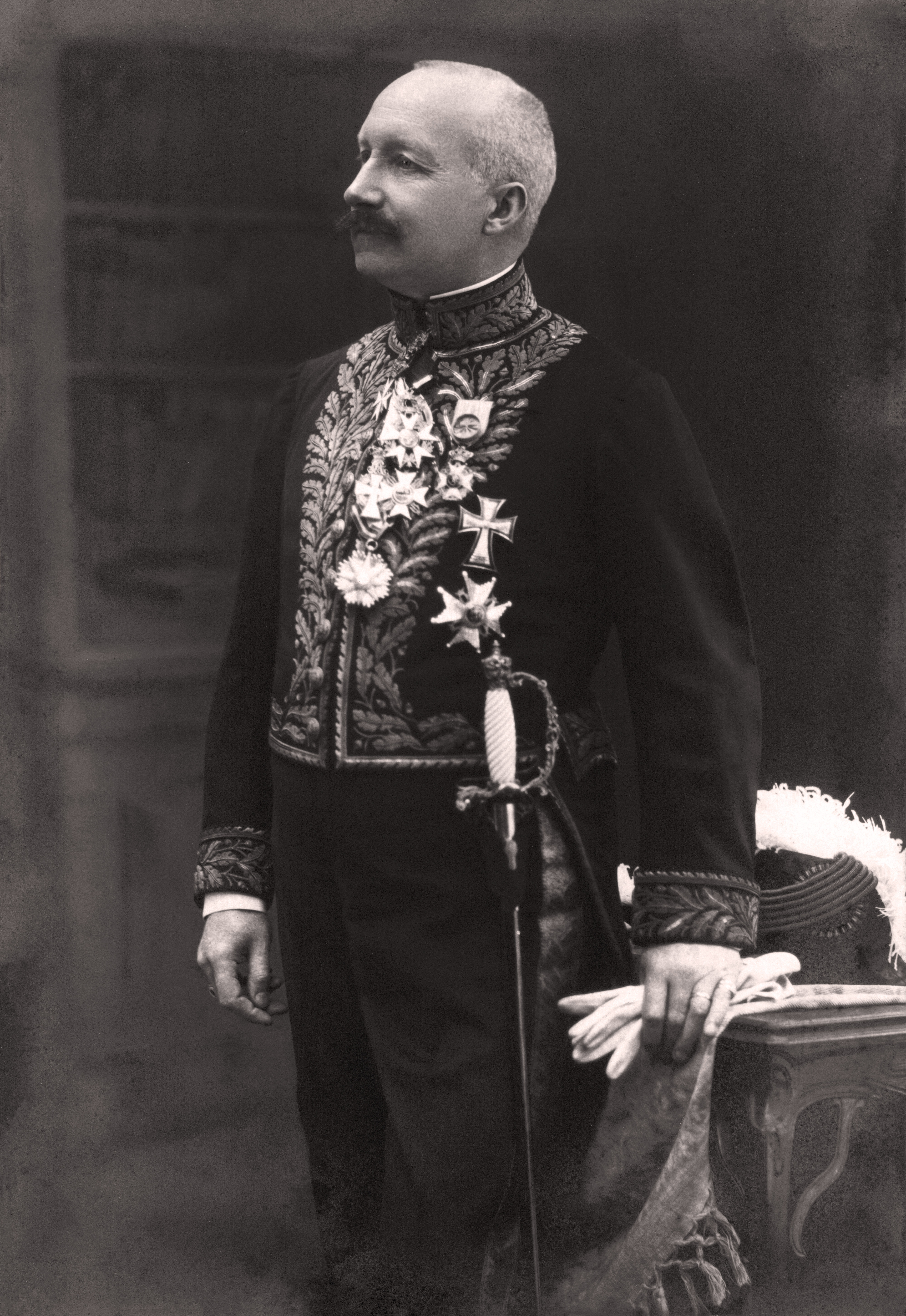 Gaston van de Werve et de Schilde, governor of the province of Antwerp - (1912 - 1923)